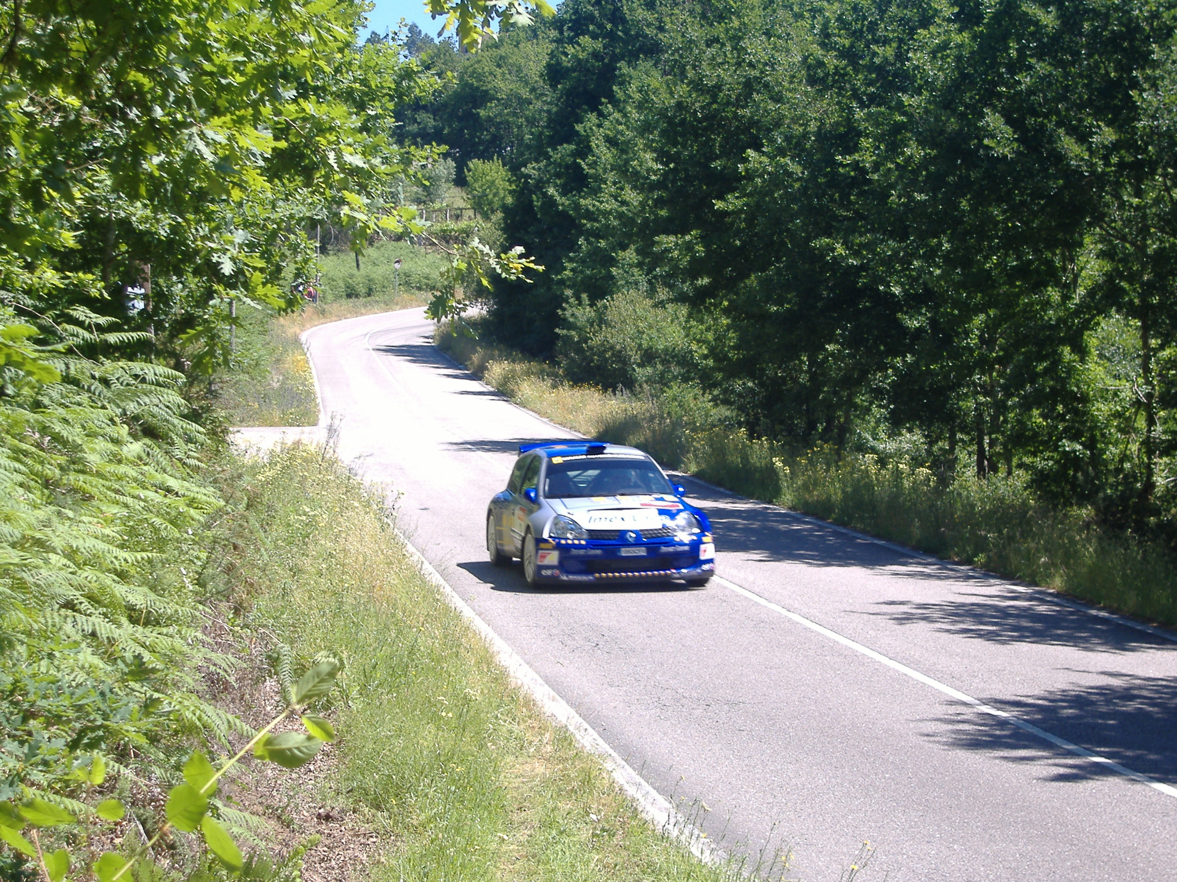 Miguel Fuster driving Renault Clio S1600 in Rally Rias Baixas 2006.